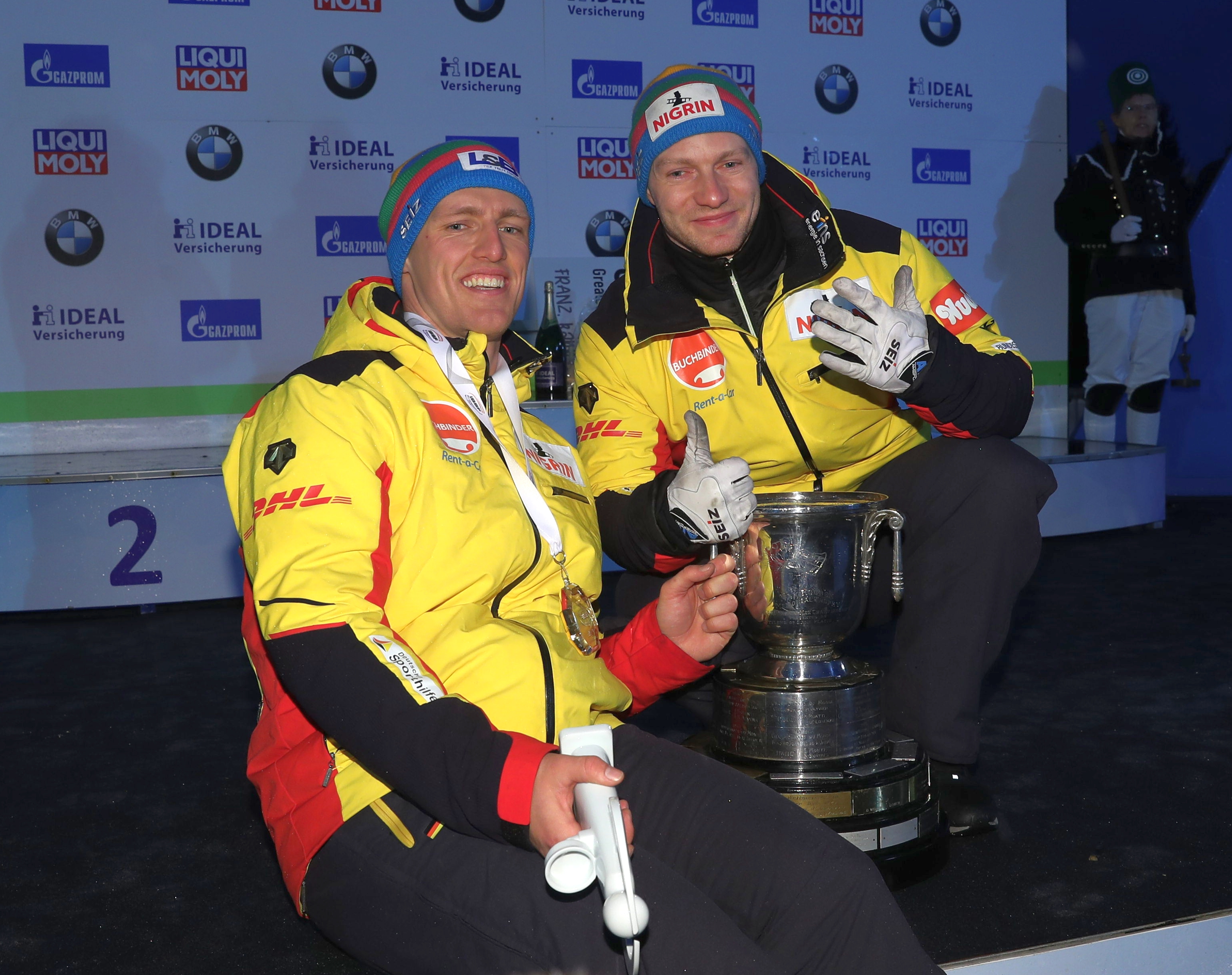 Medal Ceremony at the 2-man bobsleigh at the Bobsleigh and Skeleton World Championships 2020 in Altenberg